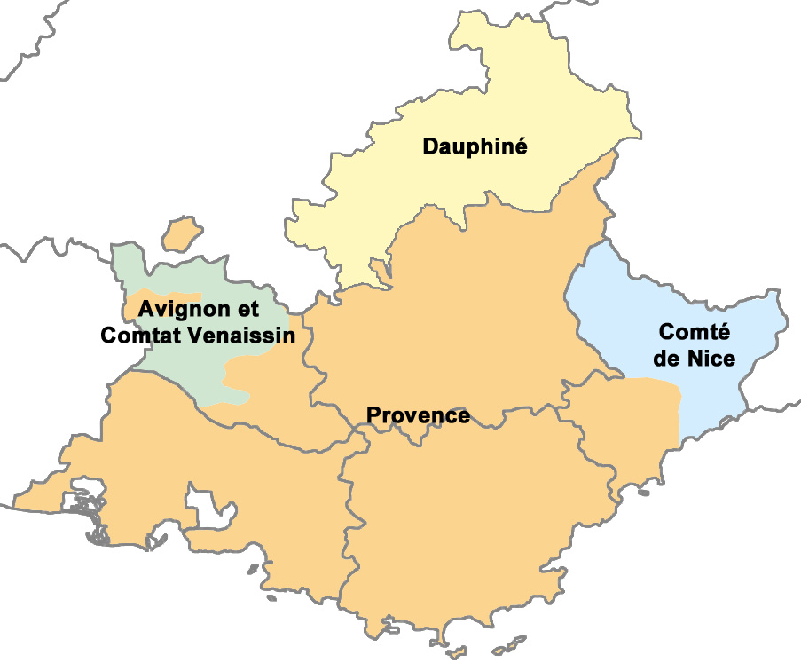 Historical provinces within the current Provence-Alpes-Côte d'Azur region